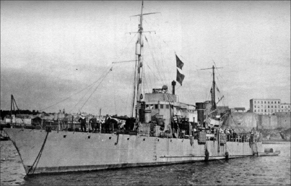 The Romanian gunboat Sublocotenent Ghiculescu